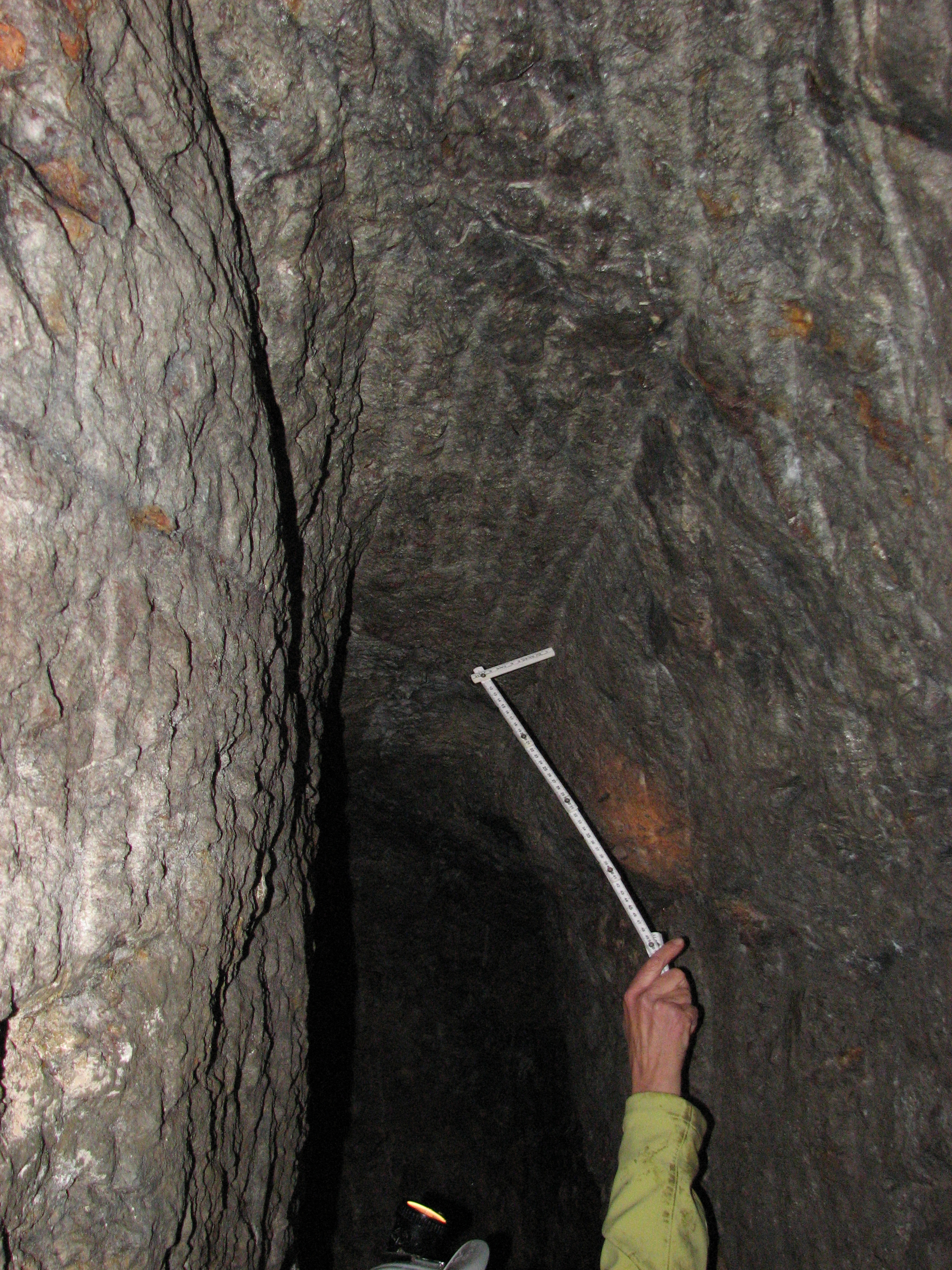 Ceiling of adit made with mallet and gad (Schlägel und Eisen) in the mine St. Louis-Eisenthür at Ste. Marie aux Mines, Alsace, France. Silver mining. Gallery dating around the 16. century. Scale: Bended part of folding rule = 10cm.